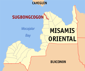 Map of the Misamis Oriental showing the location of Sugbongcogon